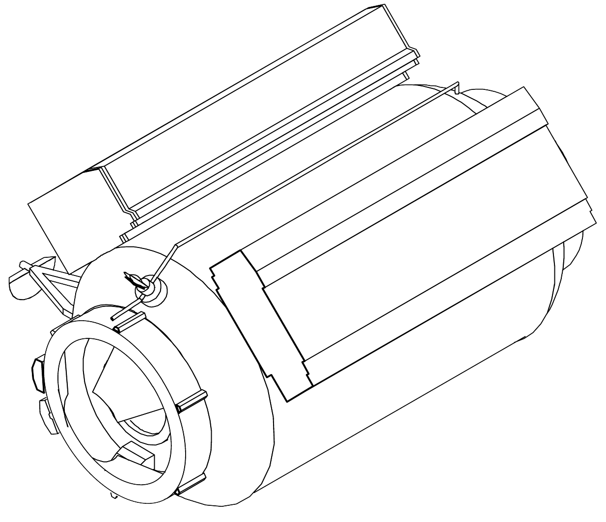 The Russian-designed Docking Module which was added to Kristall in November 1995 to accommodate future Space Shuttle dockings with the Mir complex. An APAS mechanism shows at the end of the module (left side of drawing). The module was transported to Mir by Atlantis on STS-74.